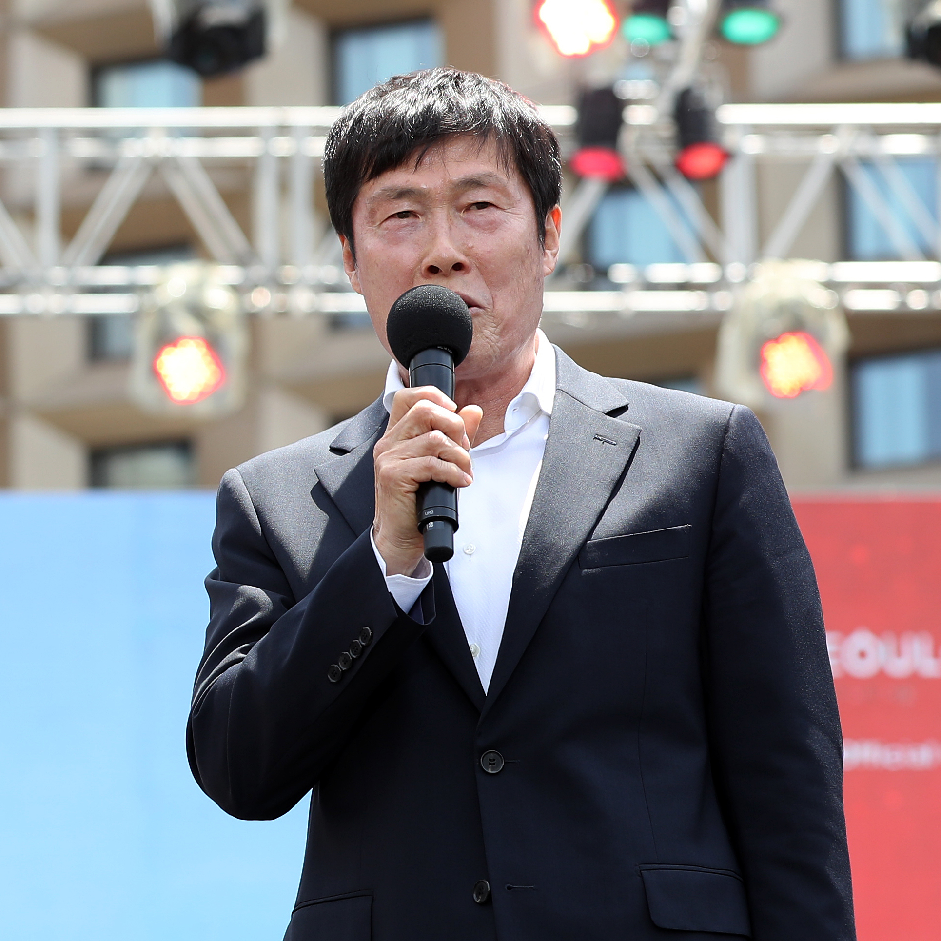 Team Korea Official Ceremony for '2018 FIFA World Cup Russia' May 21, 2018 Seoul Plaza, Jung-gu, Seoul Ministry of Culture, Sports and Tourism Korean Culture and Information Service ( Official Photographer : Jeon Han This official Republic of Korea photograph is being made available only for publication by news organizations and/or for personal printing by the subject(s) of the photograph. The photograph may not be manipulated in any way. Also, it may not be used in any type of commercial, advertisement, product or promotion that in any way suggests approval or endorsement from the government of the Republic of Korea. '2018 러시아 월드컵’ 대한민국 축구 국가대표팀 출정식 2018-05-21 시청광장 문화체육관광부 해외문화홍보원 코리아넷 전한